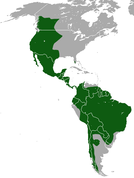 Cougar (Puma concolor) range